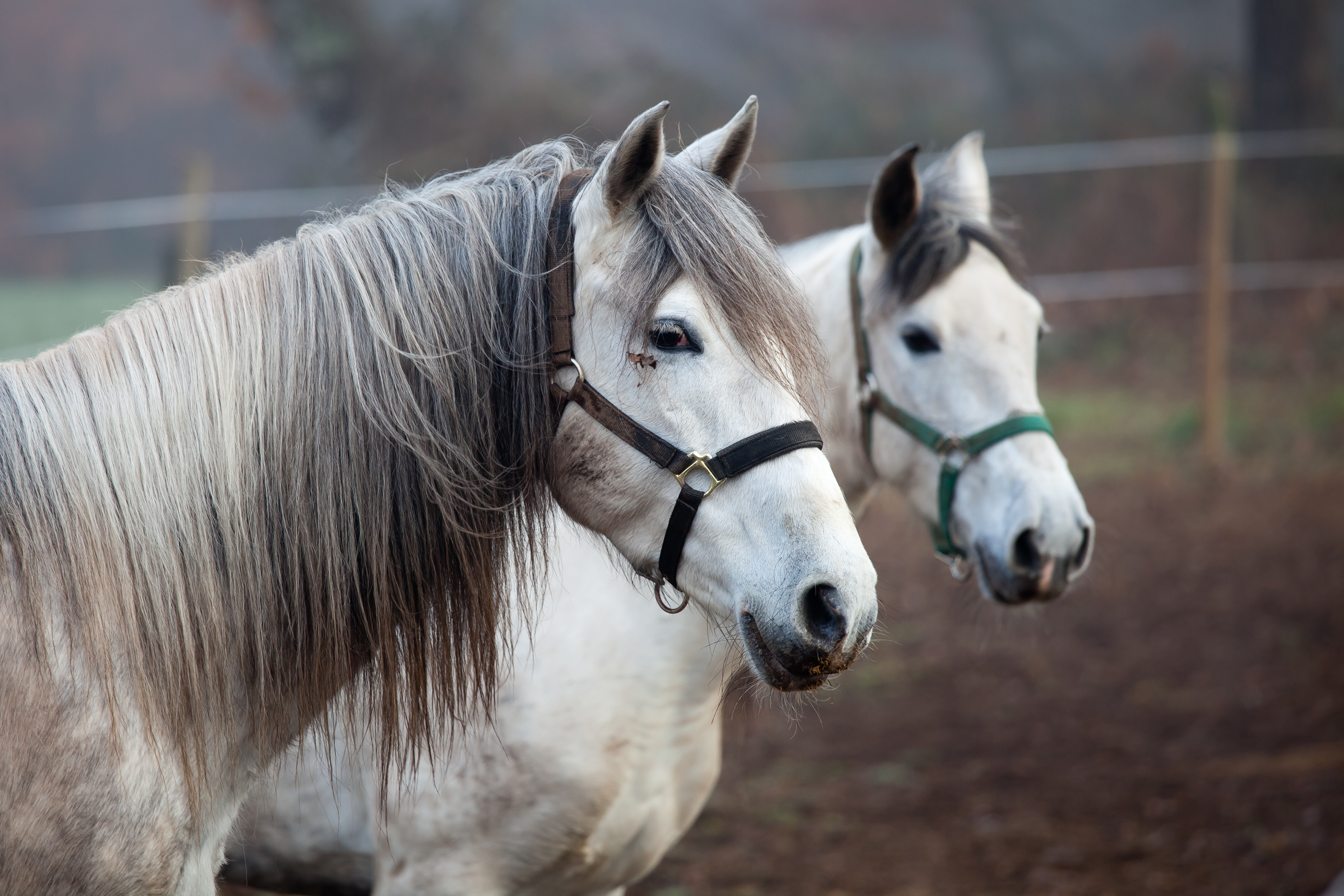 Horses, Codesedo, Doade, Lalín, Galicia (Spain)